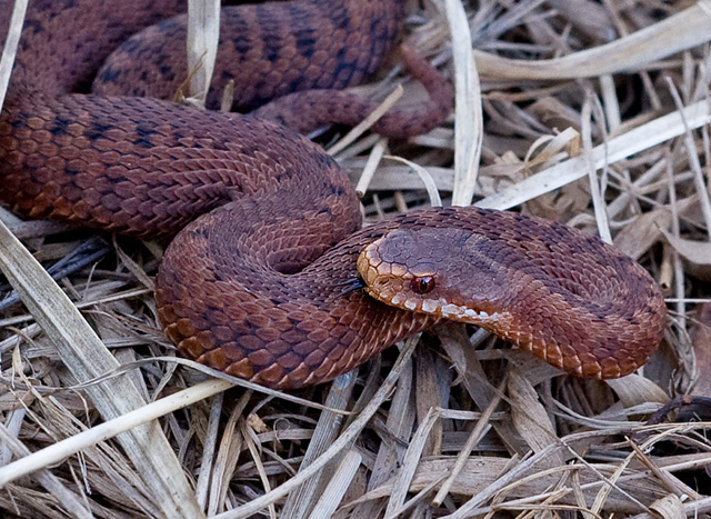 Adder Female adder